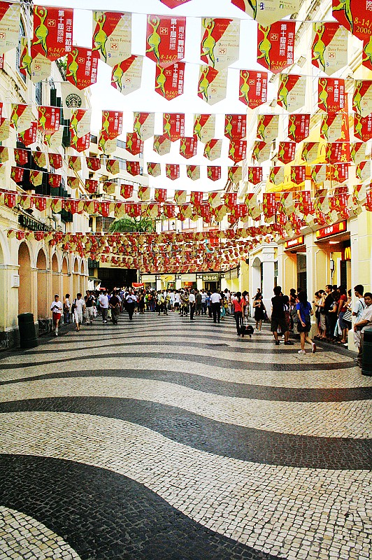 The Portuguese style road in Macau